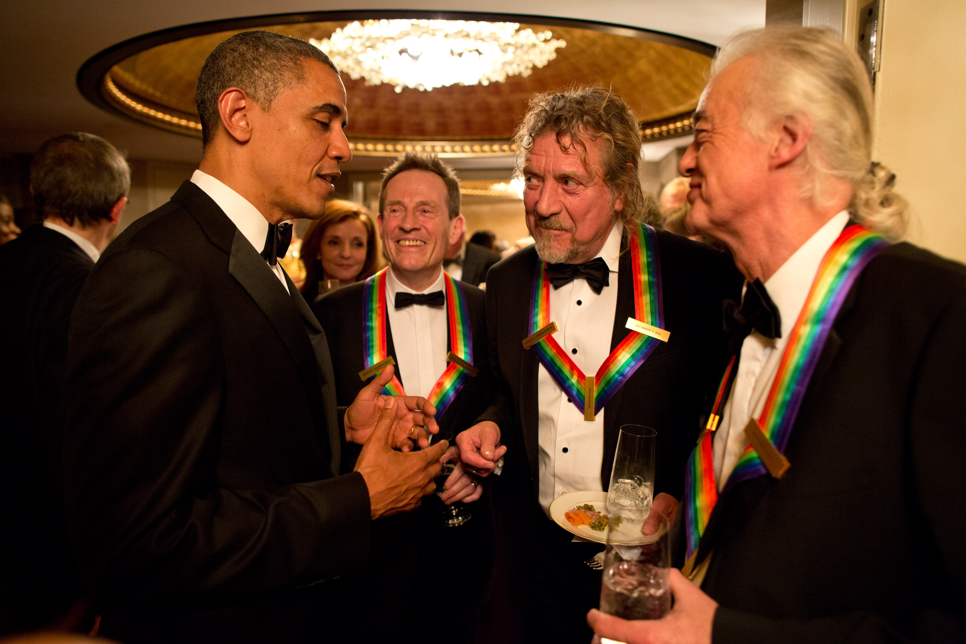 United States President Barack Obama speaks with the surviving members of Led Zeppelin – John Paul Jones, Robert Plant and Jimmy Page – at the 2012 Kennedy Center Honors event.